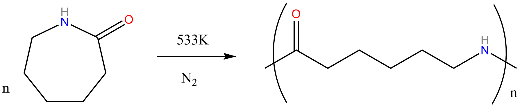 Nylon 6